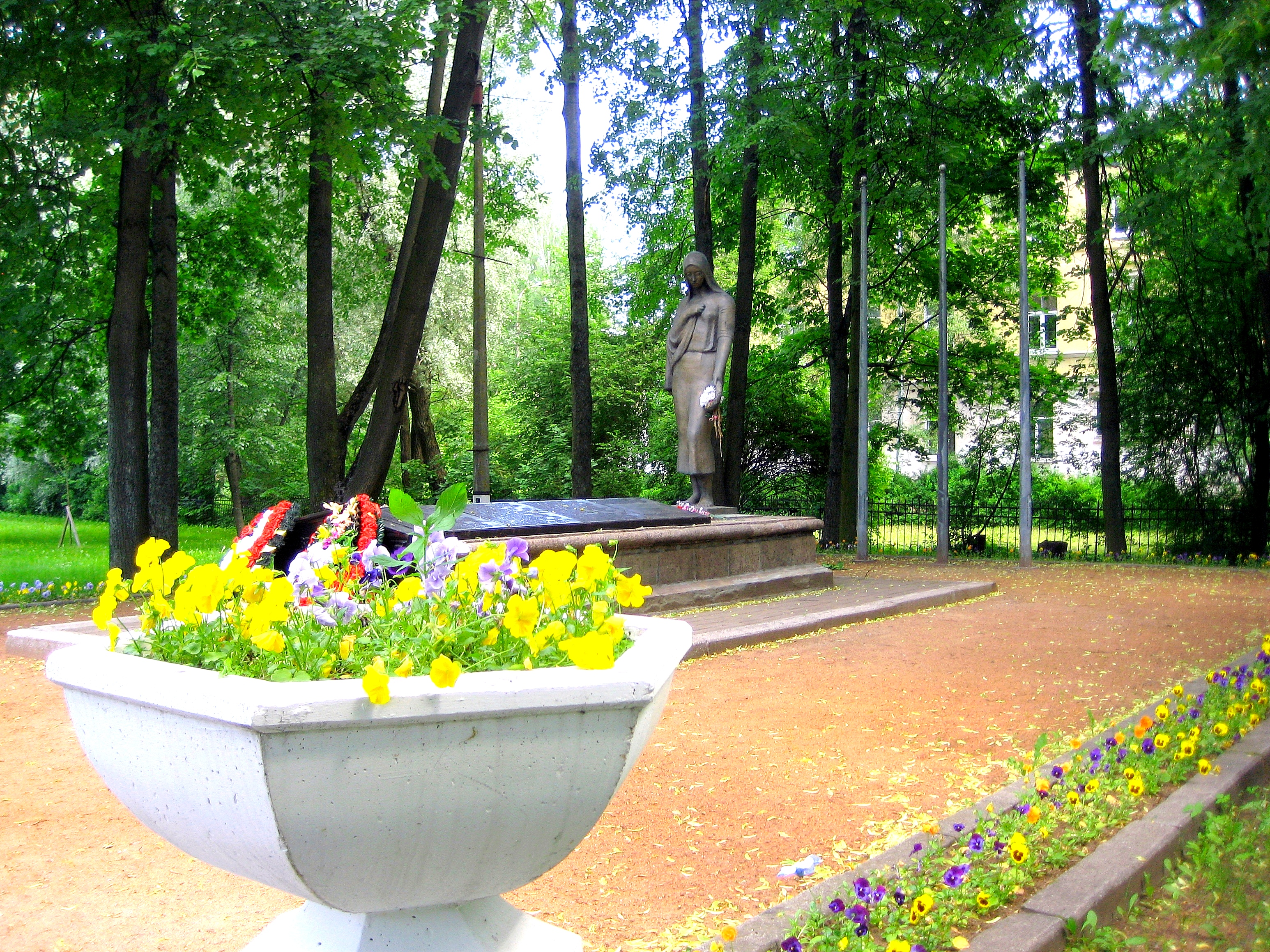 Pavlovsk. Detskoselskaya street. Memorial «Grieving Mother» in a square on the graves of Soviet soldiers who died in 1941-1945